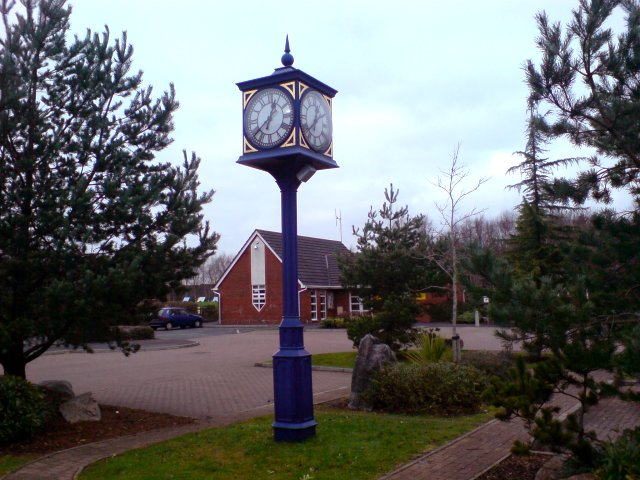 Tircoed Community Centre Tircoed is a large modern housing estate built in Penllergaer Forest over the last few years. Much thought has been given to the estate (though the layout can be confusing if you don't know your way round) - it includes its own convenience store and a modern community centre. A recent addition to this building is the antenna attached to the back of the building. This is a quarter wave transmitter mast for the recently launched Radio Tircoed, a voluntary run community radio station.